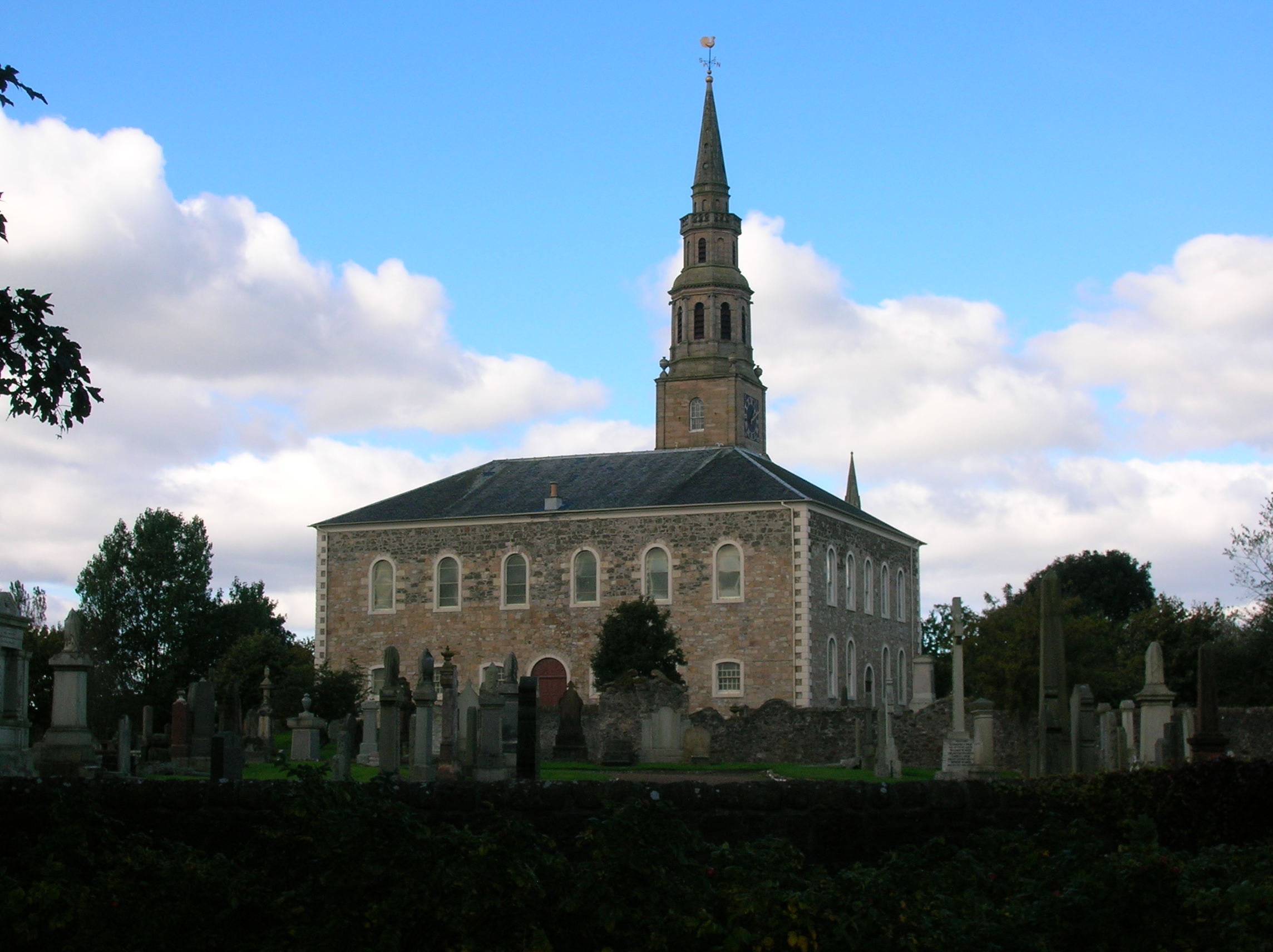 The Old Parish church, Irvine, North Ayrshire, Scotland.